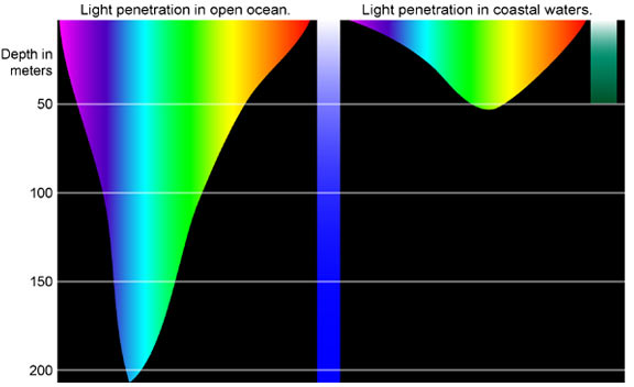 National Oceanic and Atmospheric Administration Deep Light comparing penetration of light of different wavelengths in the open ocean and coastal waters.